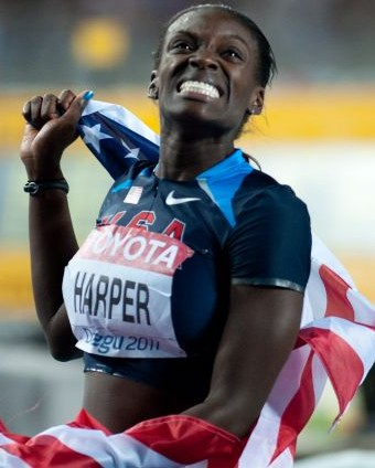 Dawn Harper during 2011 World championships Athletics in Daegu